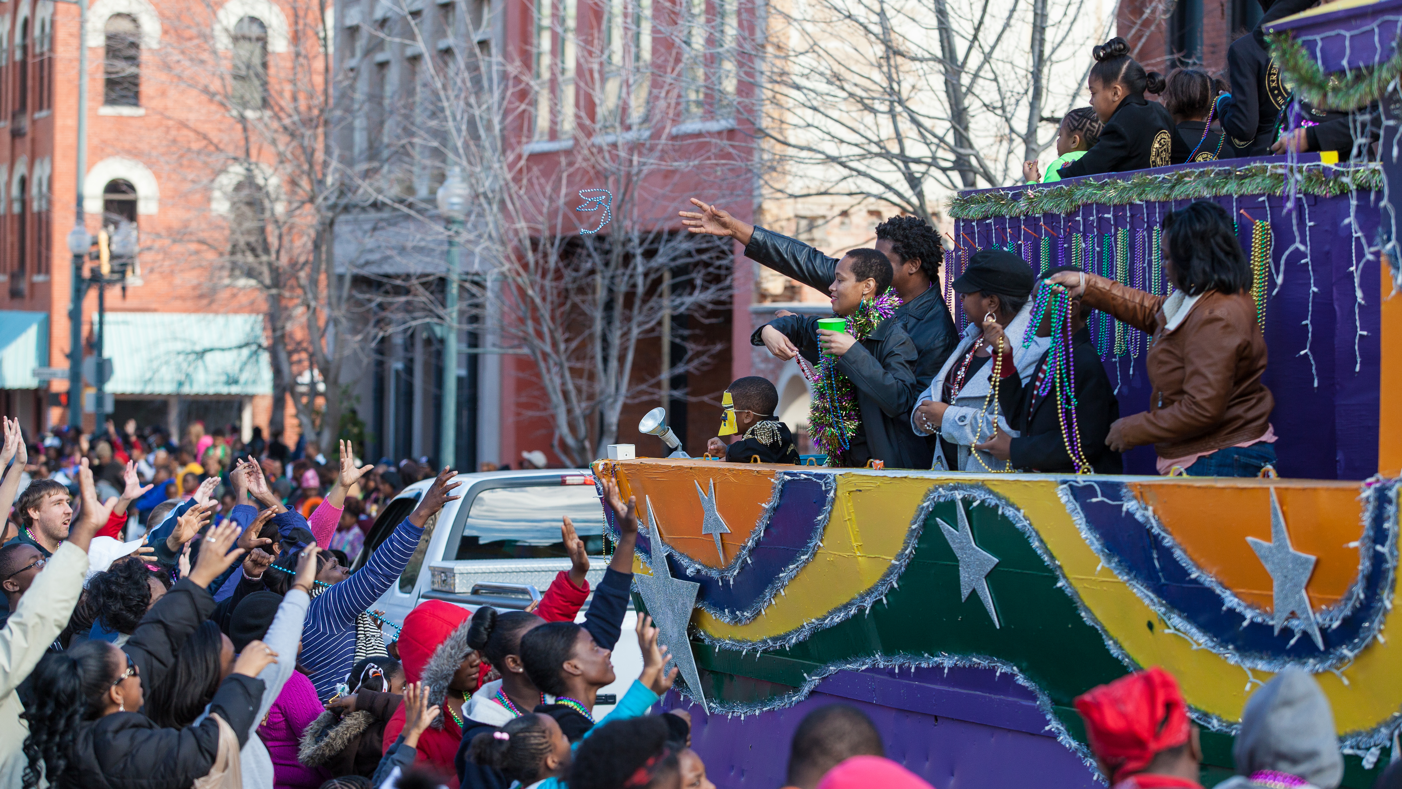 Krewe members toss beads, candy and other throws during the 2013 Krewe of Harambee MLK Day Mardi Gras Parade in downtown Shreveport, Louisiana. The parade rolls through downtown Shreveport each year on Martin Luther King, Jr. Day, usually at 1 p.m.